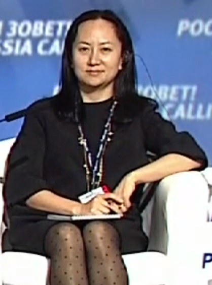 Huawei's CFO Meng Wanzhou at the VI Russia Calling! Investment Forum organised by VTB Capital. October 2, 2014 14:50 Moscow